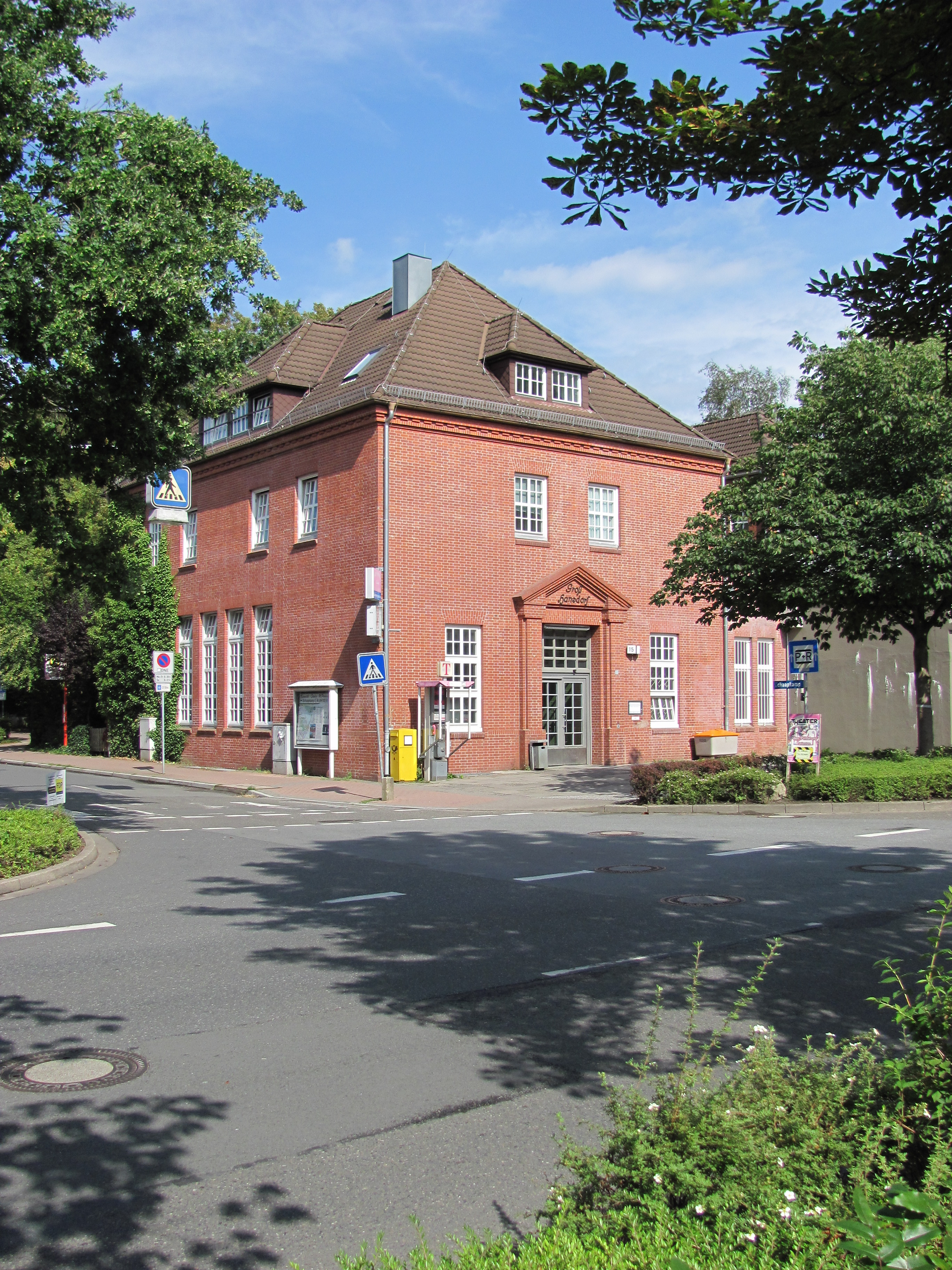 U-Bahn station Großhansdorf, Germany